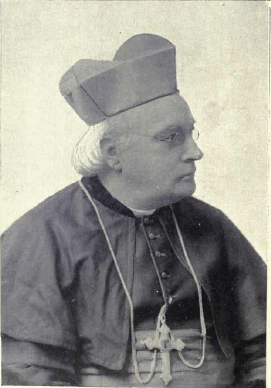 John Walsh Source: The Canadian album : men of Canada; or, Success by example, in religion, patriotism, business, law, medicine, education and agriculture; containing portraits of some of Canada's chief business men, statesmen, farmers, men of the learned professions, and others; also, an authentic sketch of their lives; object lessons for the present generation and examples to posterity (Volume 1) (1891-1896) Creator: Cochrane, William, 1831-1898 Creator: Hopkins, J. Castell (John Castell), 1864-1923 Publisher: Brantford, Ont. : Bradley, Garretson & Co. Date: 1891-1896